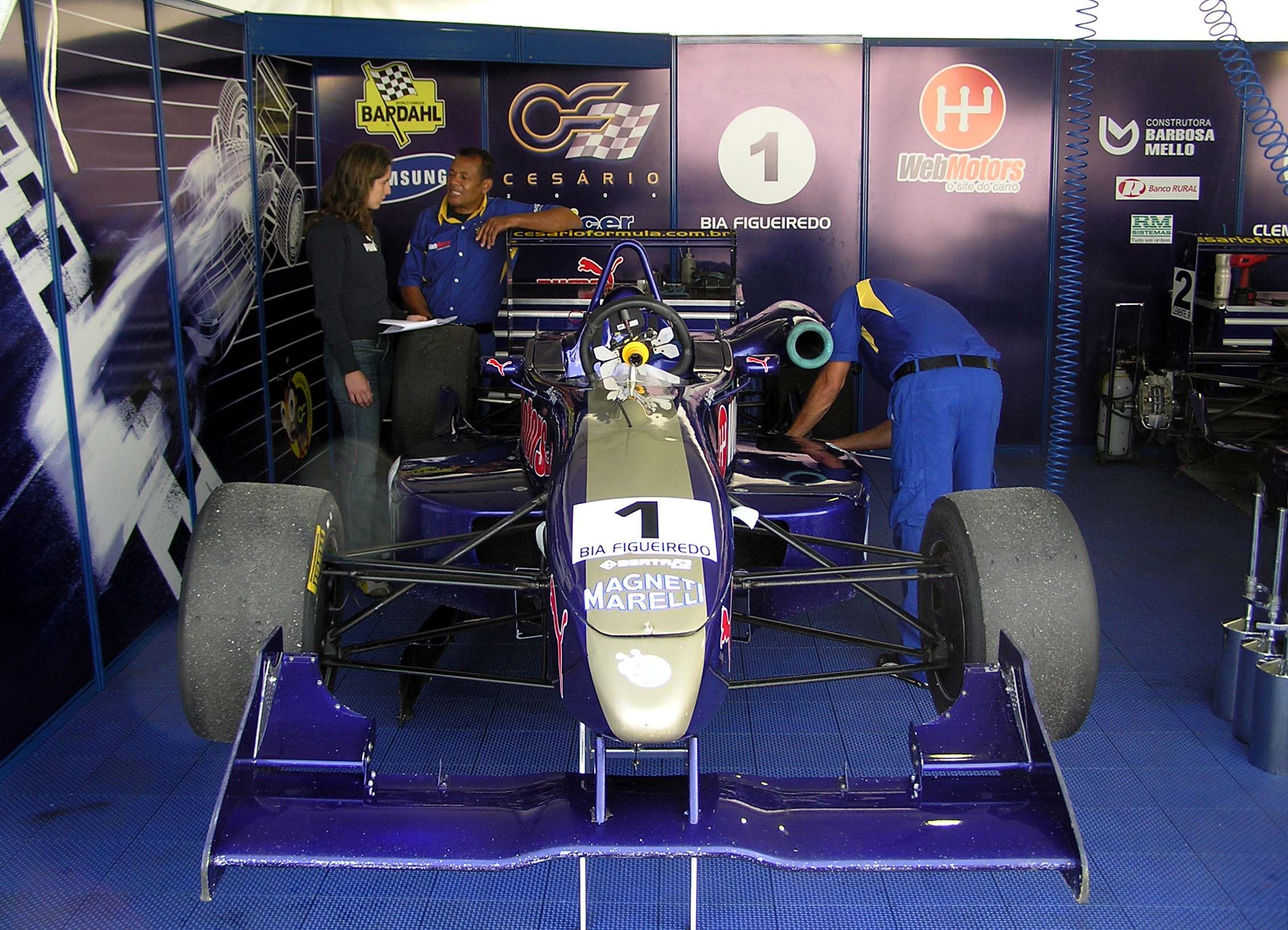 Bia Figueiredo, a female racecar driver of South American Formula 3, and her F3 car.jpg